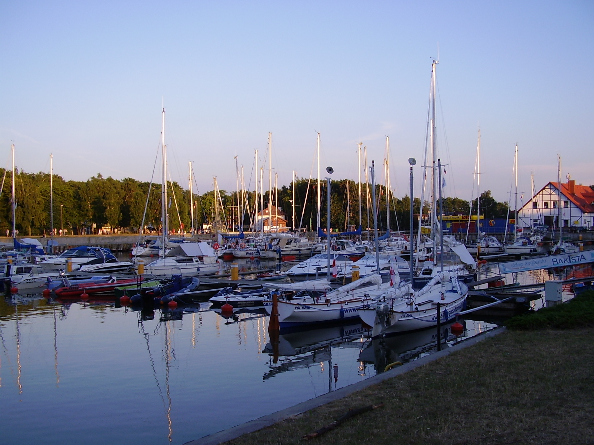 Yacht port in Łeba (Poland)